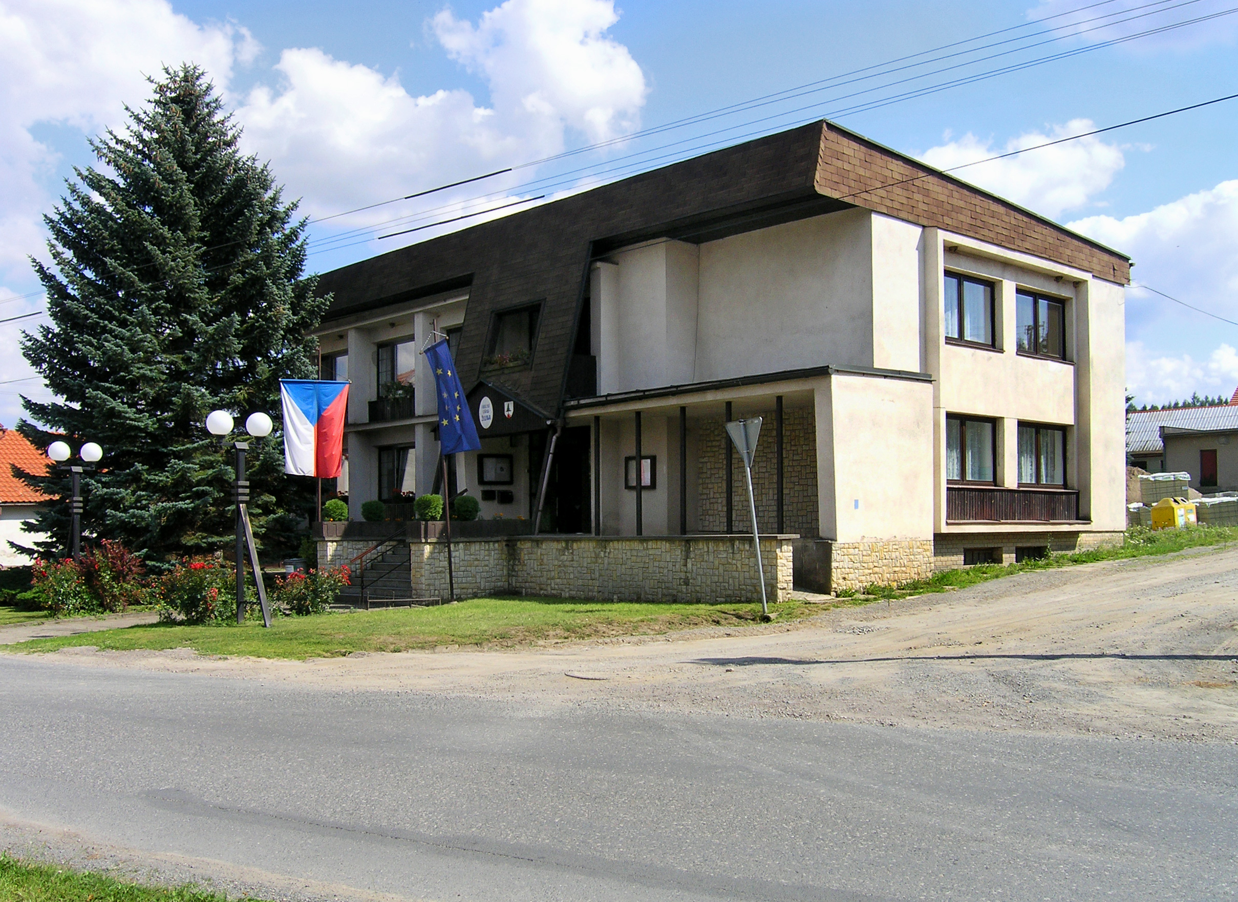 Municipally office in Žilina by Kladno, Czech Republic